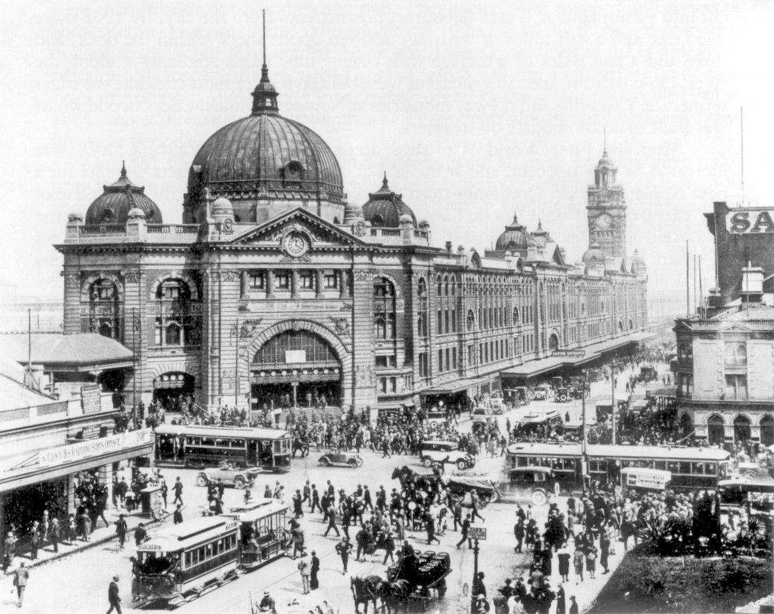 Flinders Street Station, Melbourne, at the intersection of Swanston Street (running left-right) and Flinders Street (running diagonally top-bottom), 1927.